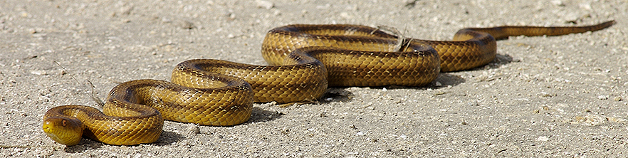 Yellow Rat Snake (Elaphe obsoleta quadrivittata -- Family Colubridae). STA-5, south of Clewiston, Hendry Co., Florida. Photographed during the first Clewiston/STA-5 Christmas Bird Count 12/15/2007